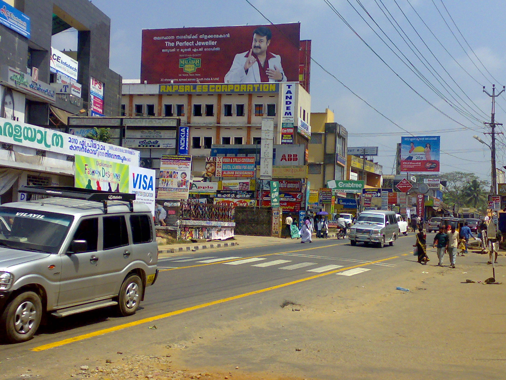 NH 47 at Attingal, Private Bus stand.